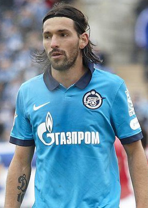 Danny against Spartak Moscow